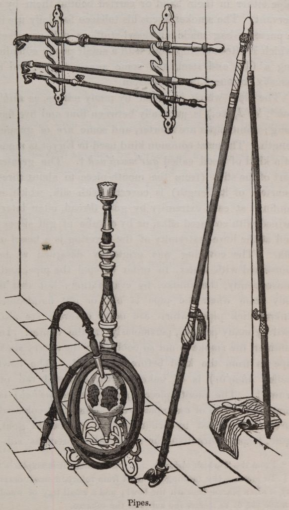 Different pipes in different sizes. Engraving (prints).